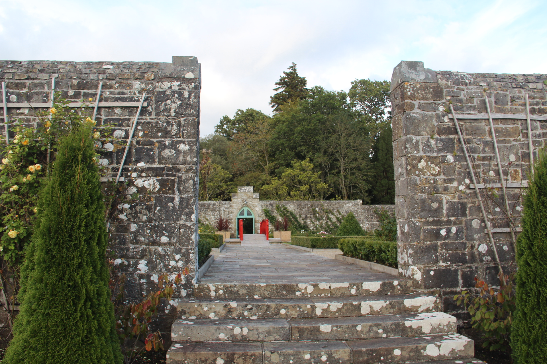 Steps to upper walled garden.